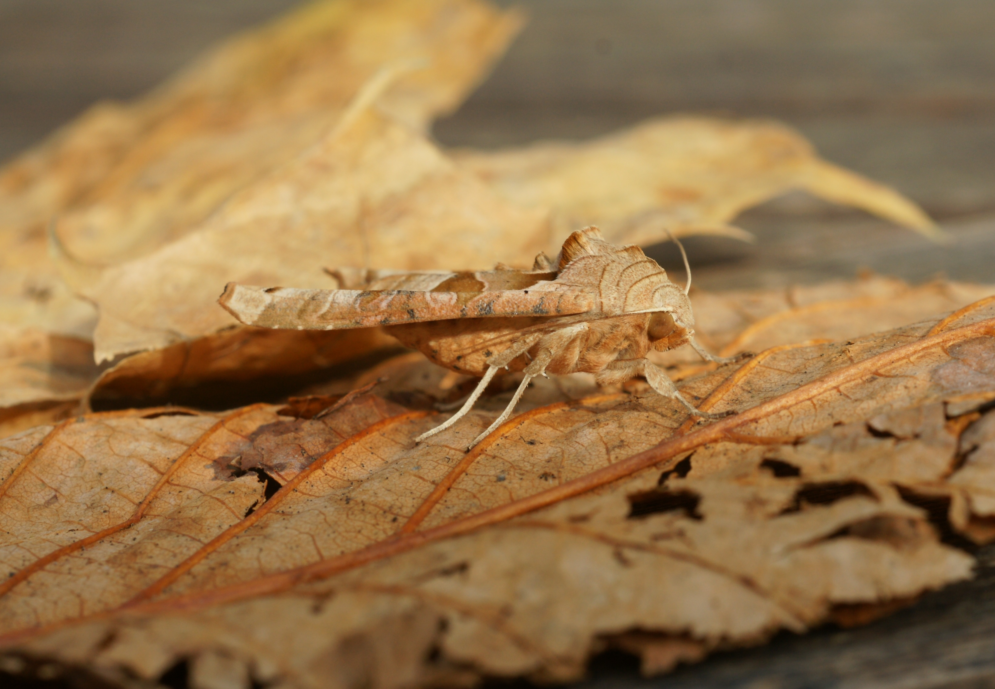 The Angle Shades (Phlogophora meticulosa) is a moth of the family Noctuidae. It is a common and familiar European species and is often strongly migratory.